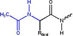 Acetylation of the N-terminus of a polypeptide. Made with ChemDraw.